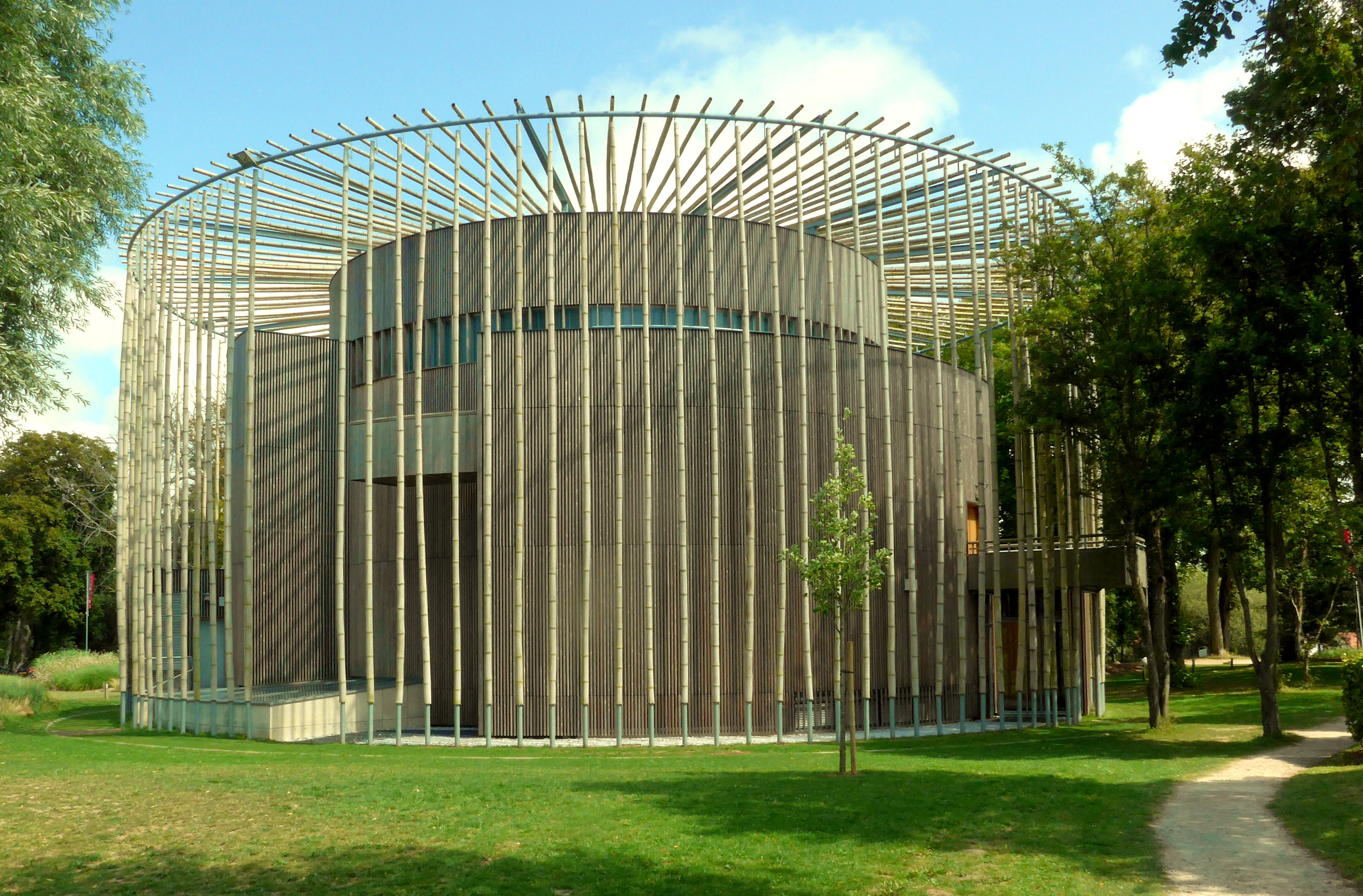 Chateau de hardelot Elisabeth Theatre